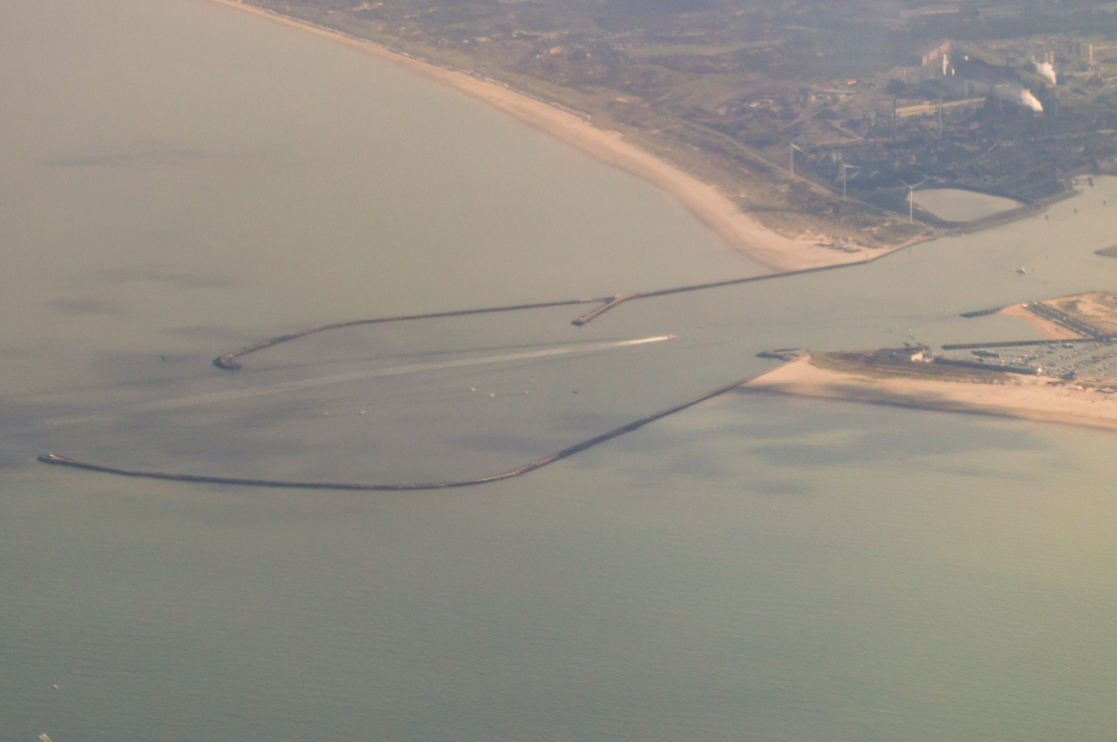 The piers of IJmuiden, seen from an aircraft.